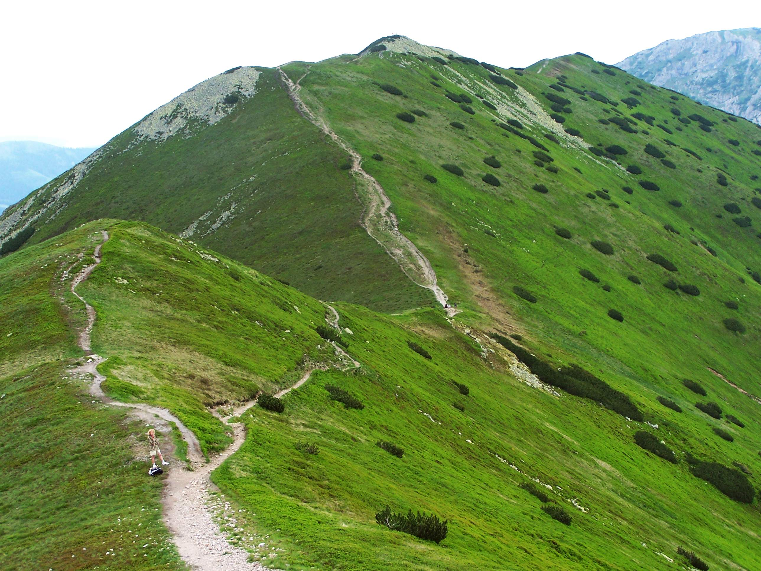 Ornak (West Tatra Mountains)